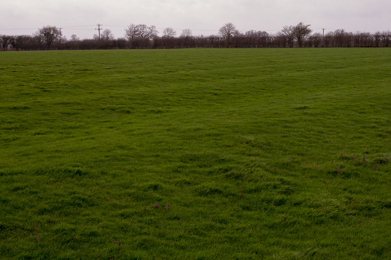 Example of medieval ridge and furrow agriculture between Stony Stratford and Passenham, Buckinghamshire.